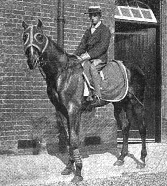 Photograph of British jockey Herbert Jones and racehorse Diamond Jubilee from Cassell's Magazine, Volume 22, no. 8, 1900. page 49. Category:British jockeys